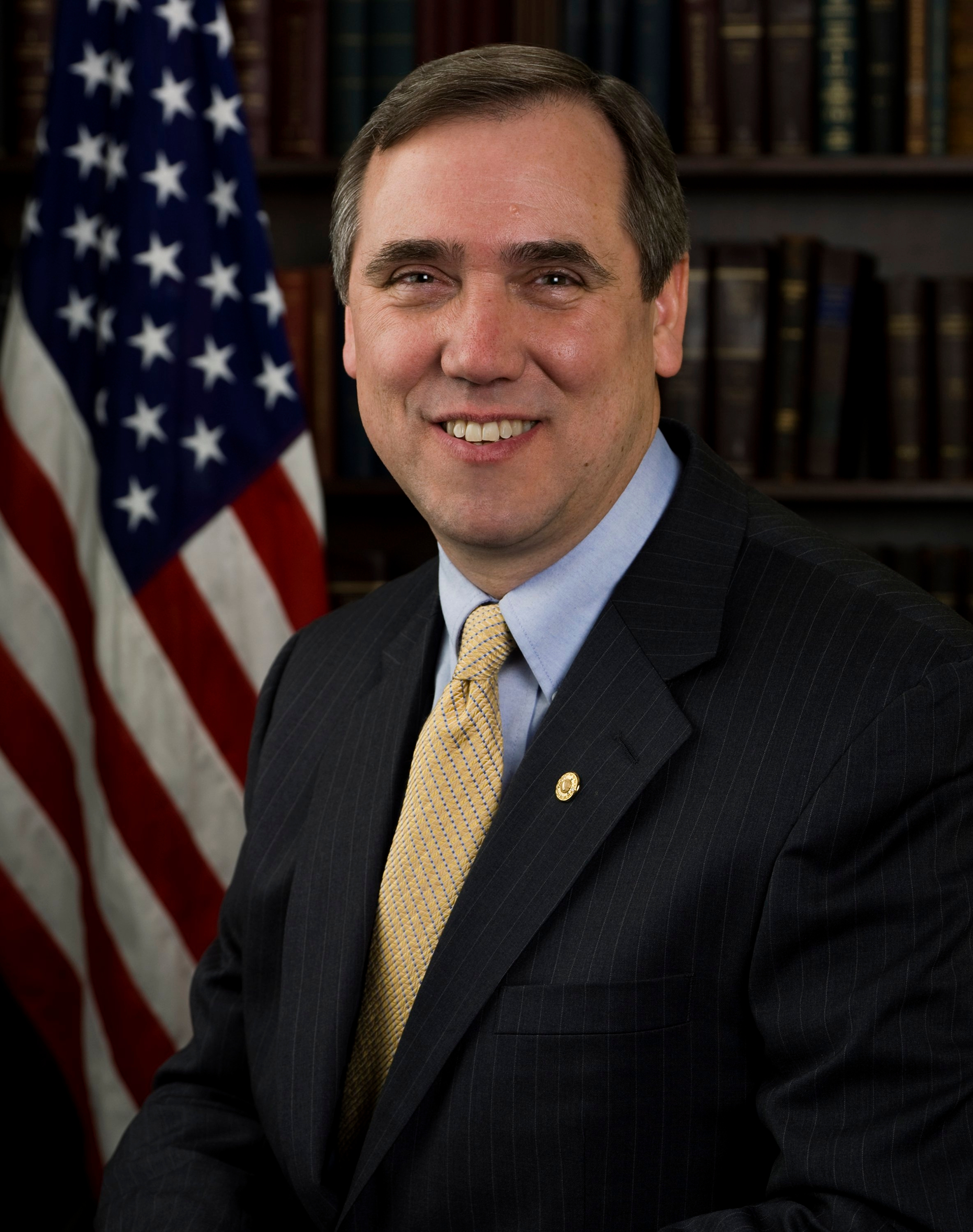 Jeff Merkley, member of the United States Senate from Oregon